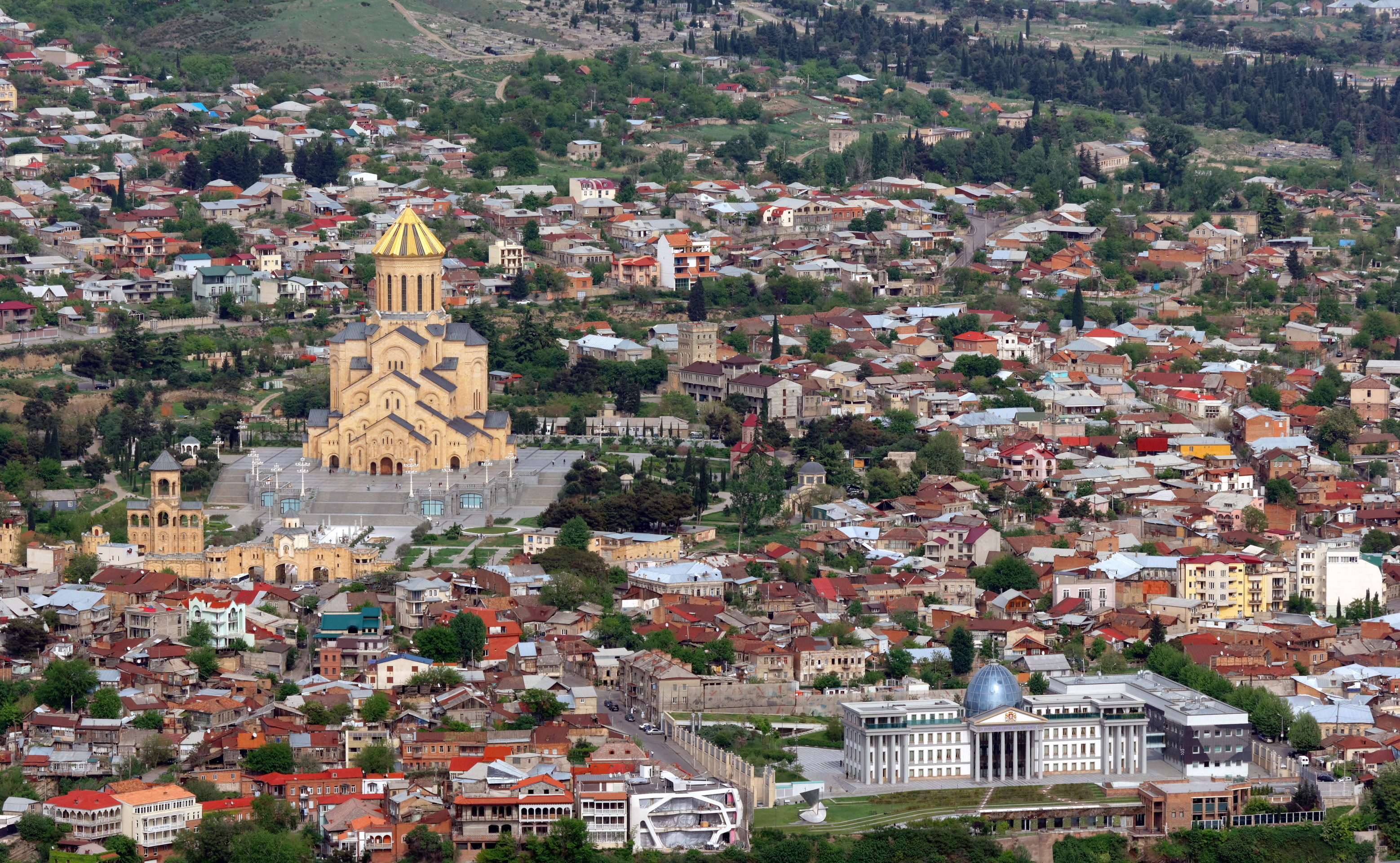 Tbilisi. Holy Trinity Cathedral (Sameba) and Presidential Palace